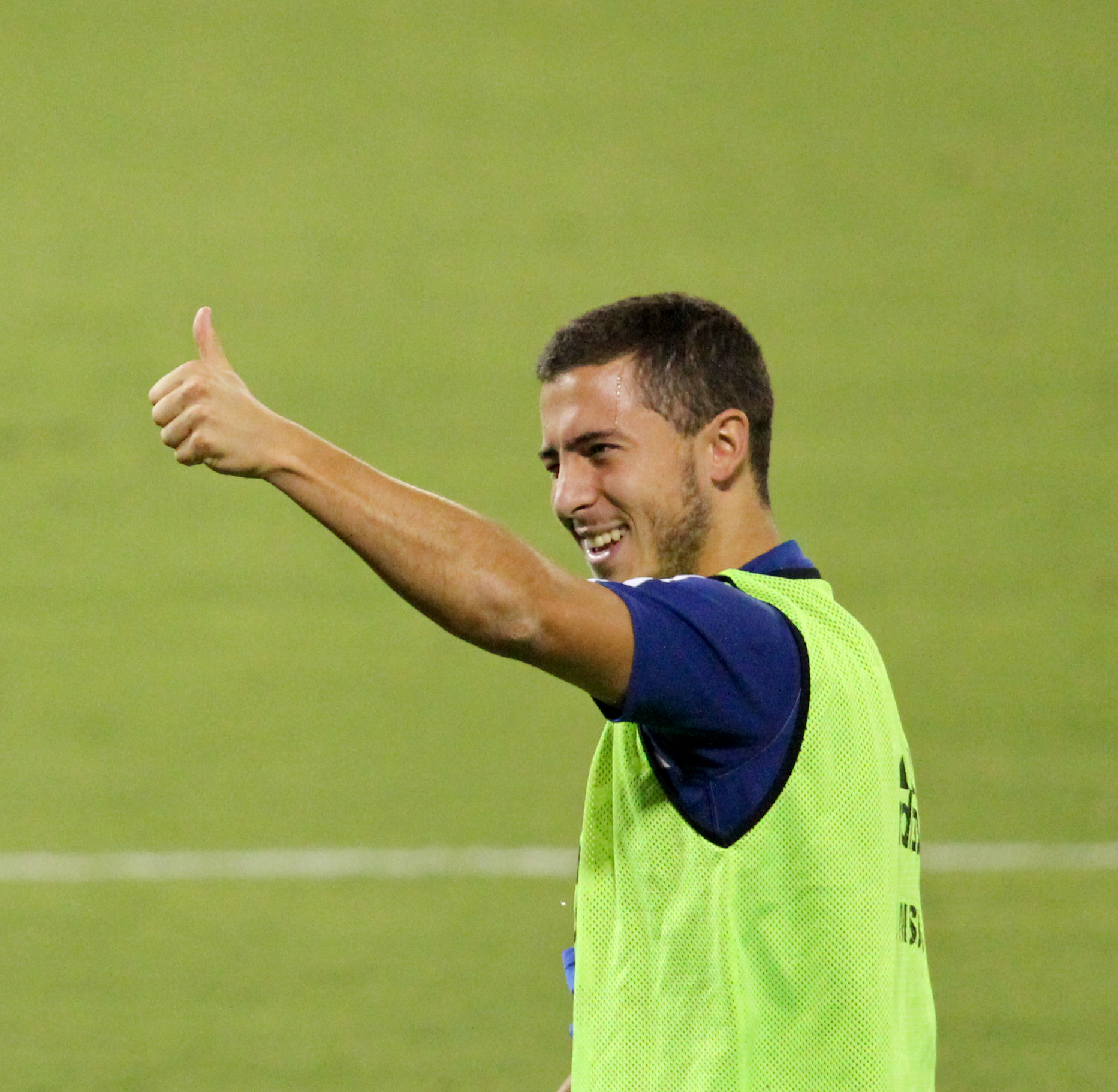 Chelsea vs. AS Roma at RFK Stadium, Washington, DC August 10, 2013